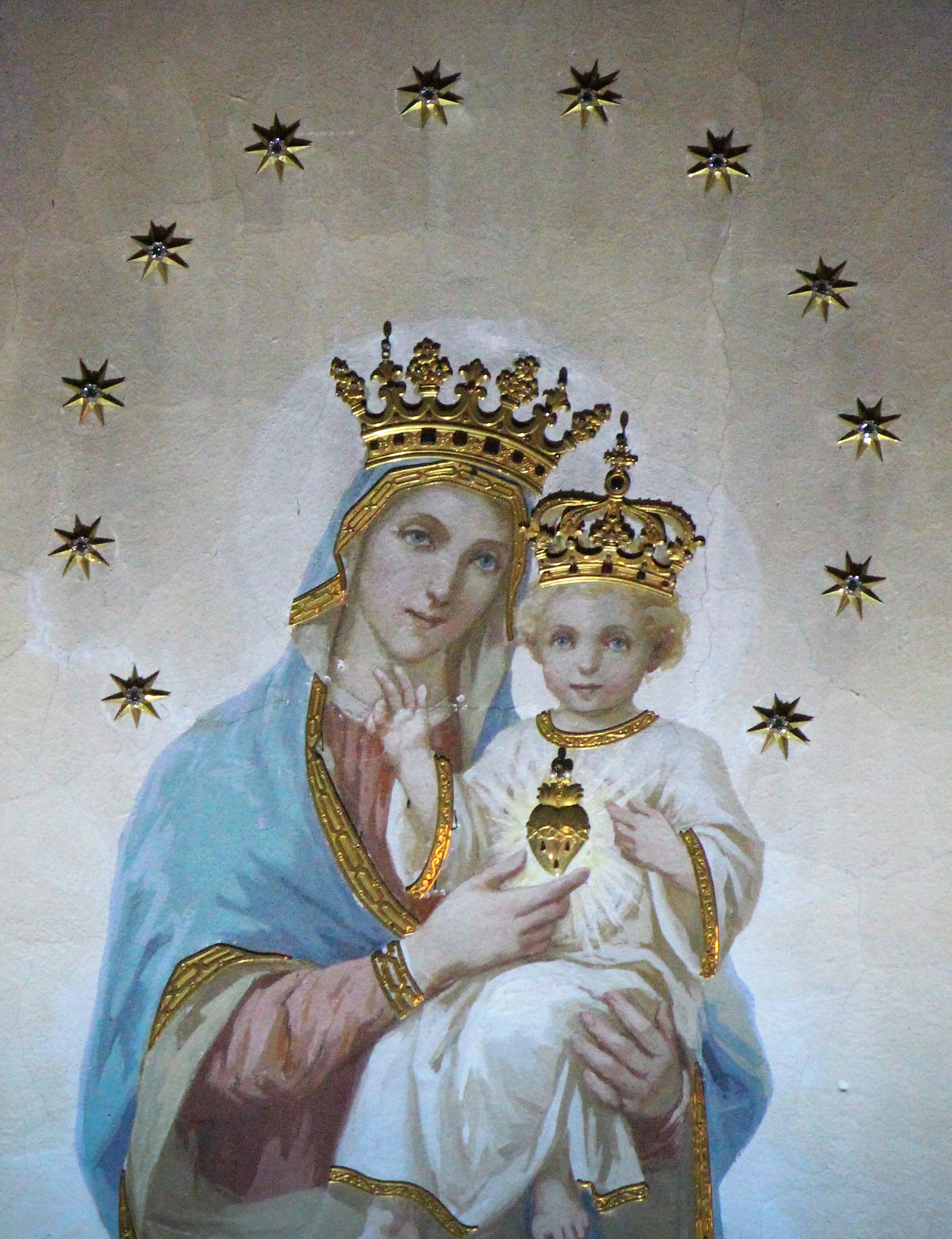 Our Lady of the Sacred Heart - Plaza Navona Church - Roma